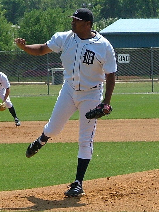 Humberto Sanchez on the mound during a minor league spring training game in 2004